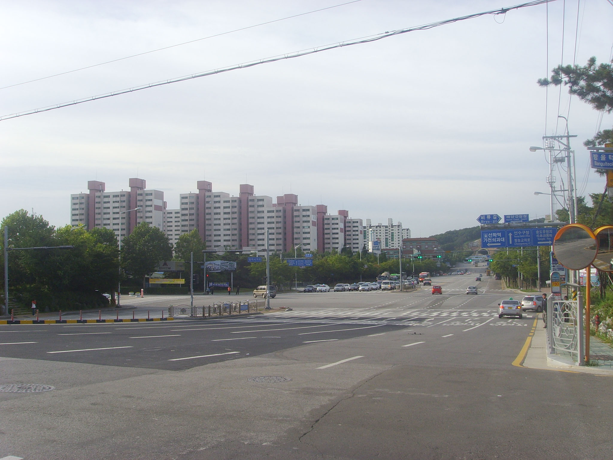 Michuhol-no, Incheon